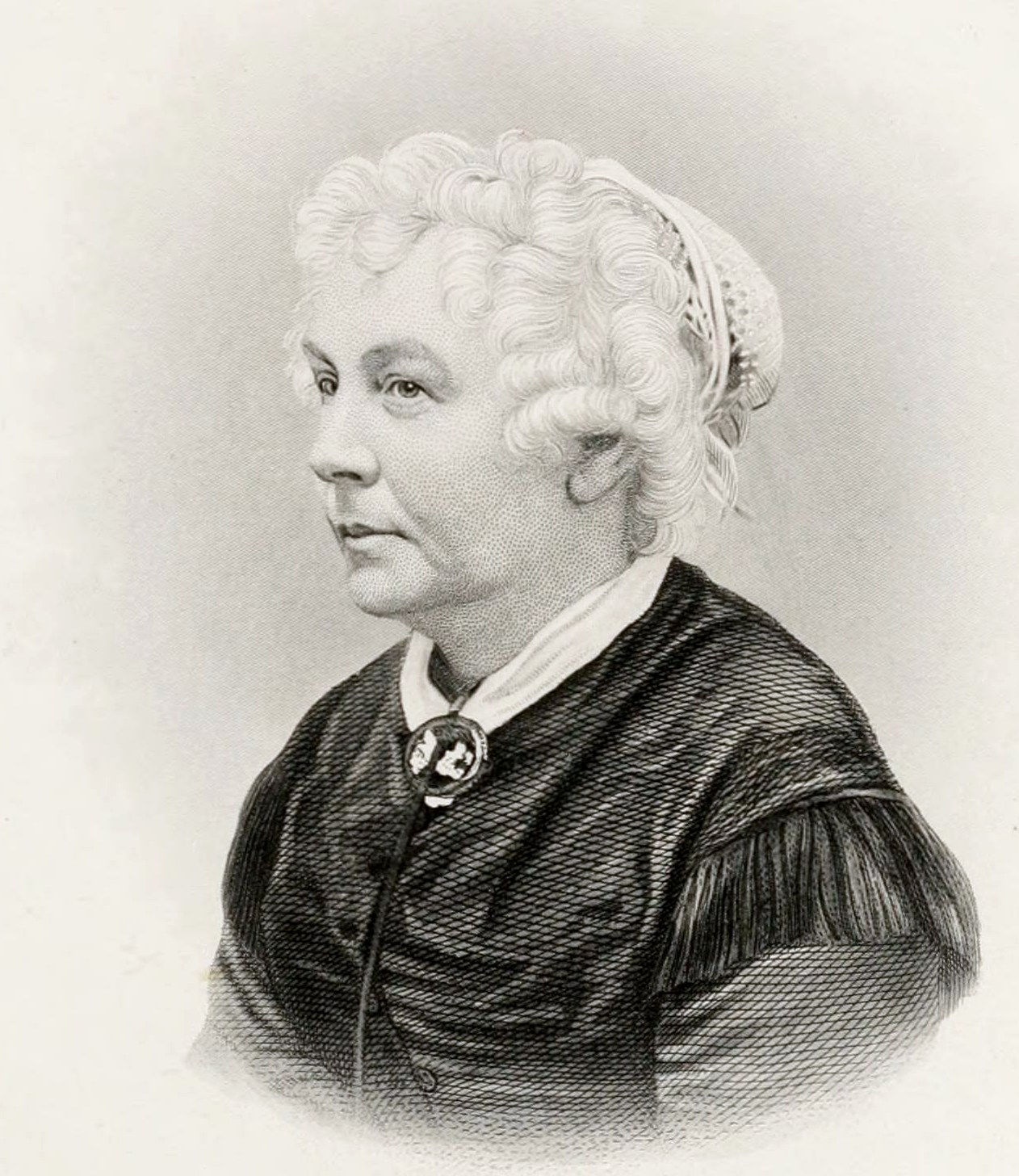 Engraving of Elizabeth Cady Stanton